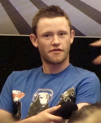 Devon Murray at London Film and Comic Con 2011.